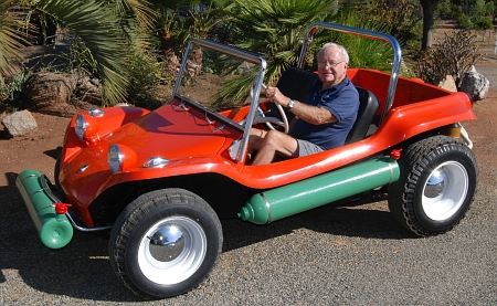 The first Meyers Manx with driver, Bruce Meyers, taken September 2007. Photo by: Roger D. Herzler